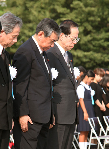 Satsuki Eda, President of the House of Councillors, Yōhei Kōno, President of the House of Representatives, and Yasuo Fukuda, Prime Minister, offered a silent prayer at Hiroshima Peace Memorial Ceremony at Hiroshima Peace Memorial Park in Hiroshima City, Hiroshima Prefecture on August 6, 2008.